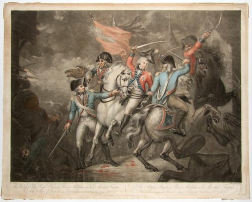 The Relief of His Royal Prince Adolphus and Field Marshall Freytag, At the Village of Rexpoede near Dunkirk; on the 6th of Sept.t 1793. M.Brown pinx.t. S.W.Sculp. Sold & Published by Orme, No.14 Old Bond Street, June 7. 1794. Colour mezzotint. 480 x 605mm. Close margins.